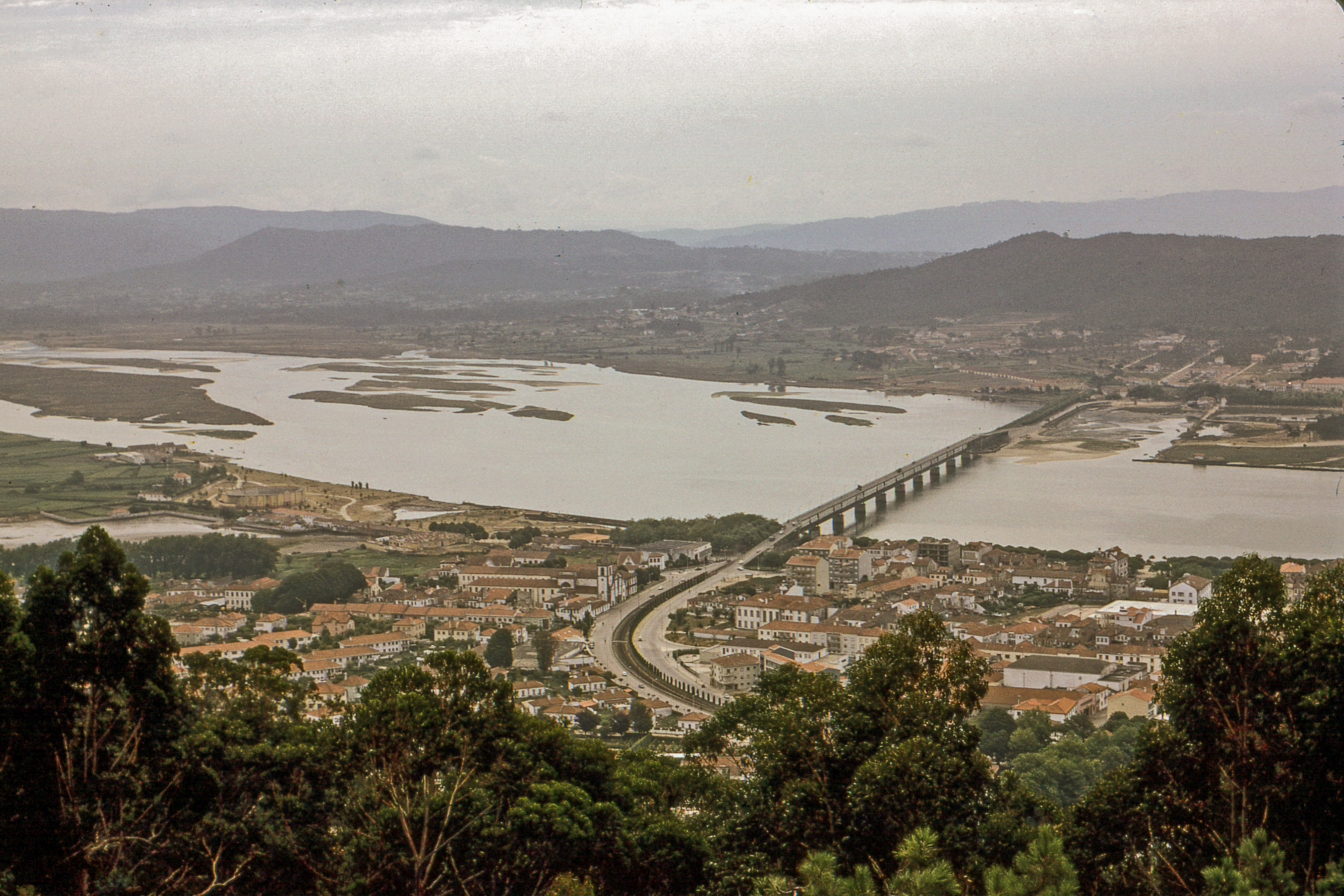 Bridge Eiffel over the river Lima, seen from Saint Lucia.